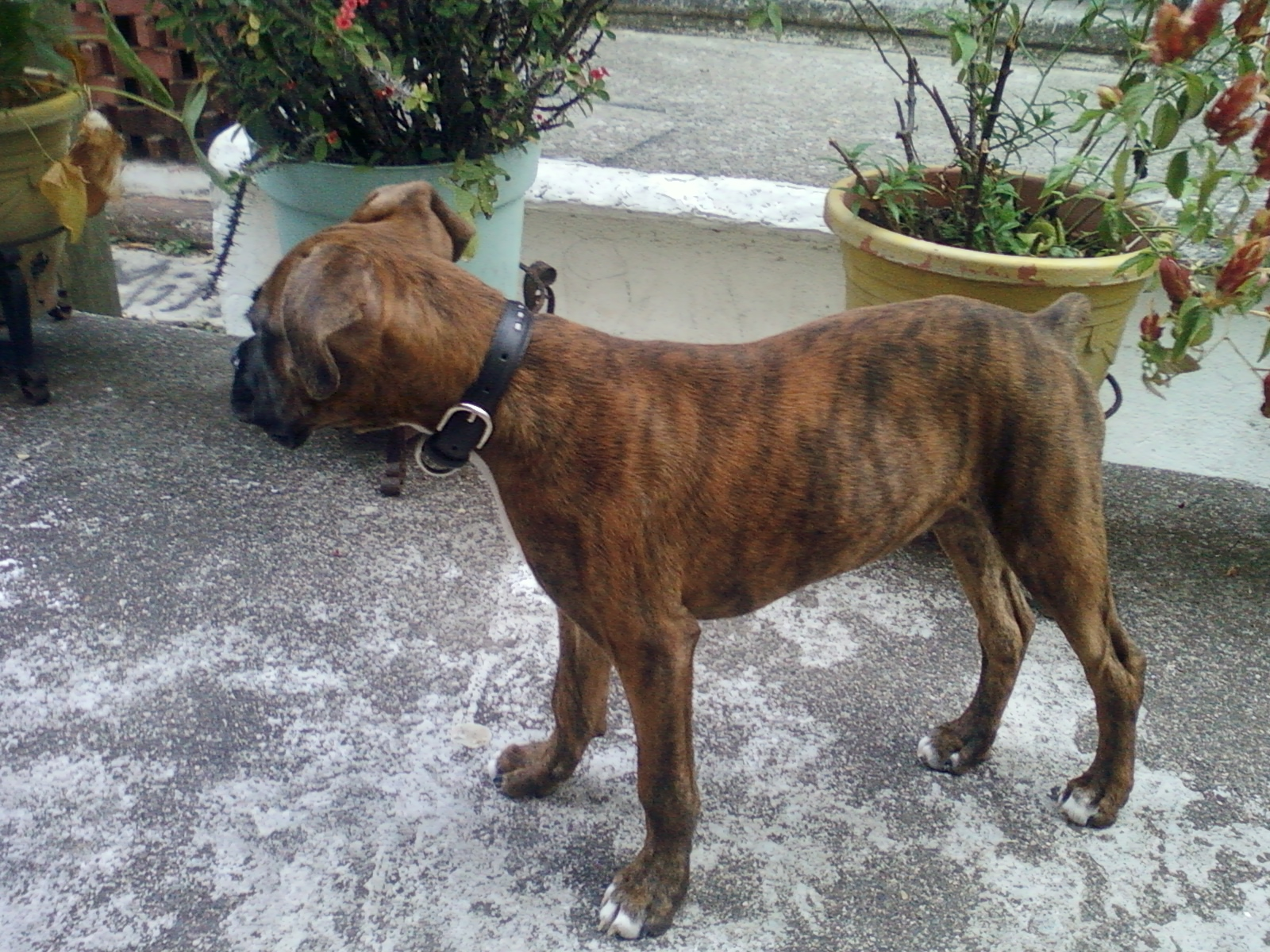 Bóxer puppy pelage tiger in profile